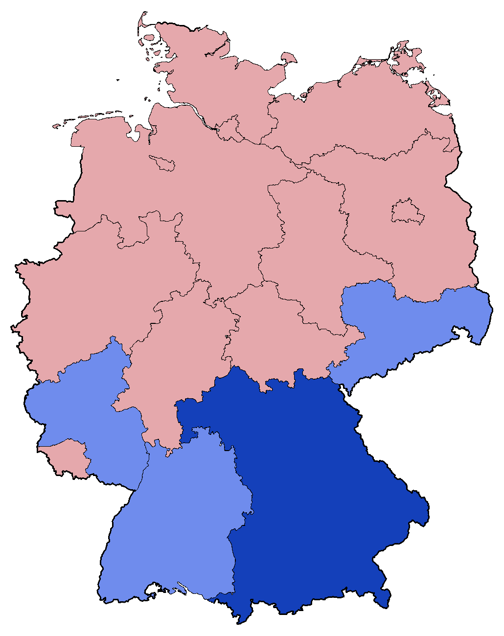 Electoral map showing the party list vote results (Zweitstimmen) of the 2002 Bundestag (German parliament) elections by state. Pink denotes states where the SPD had the plurality of the votes; dark blue denotes states where the CDU/CSU had the absolute majority of the votes; and lighter blue denotes states where the CDU/CSU had the plurality of the votes.